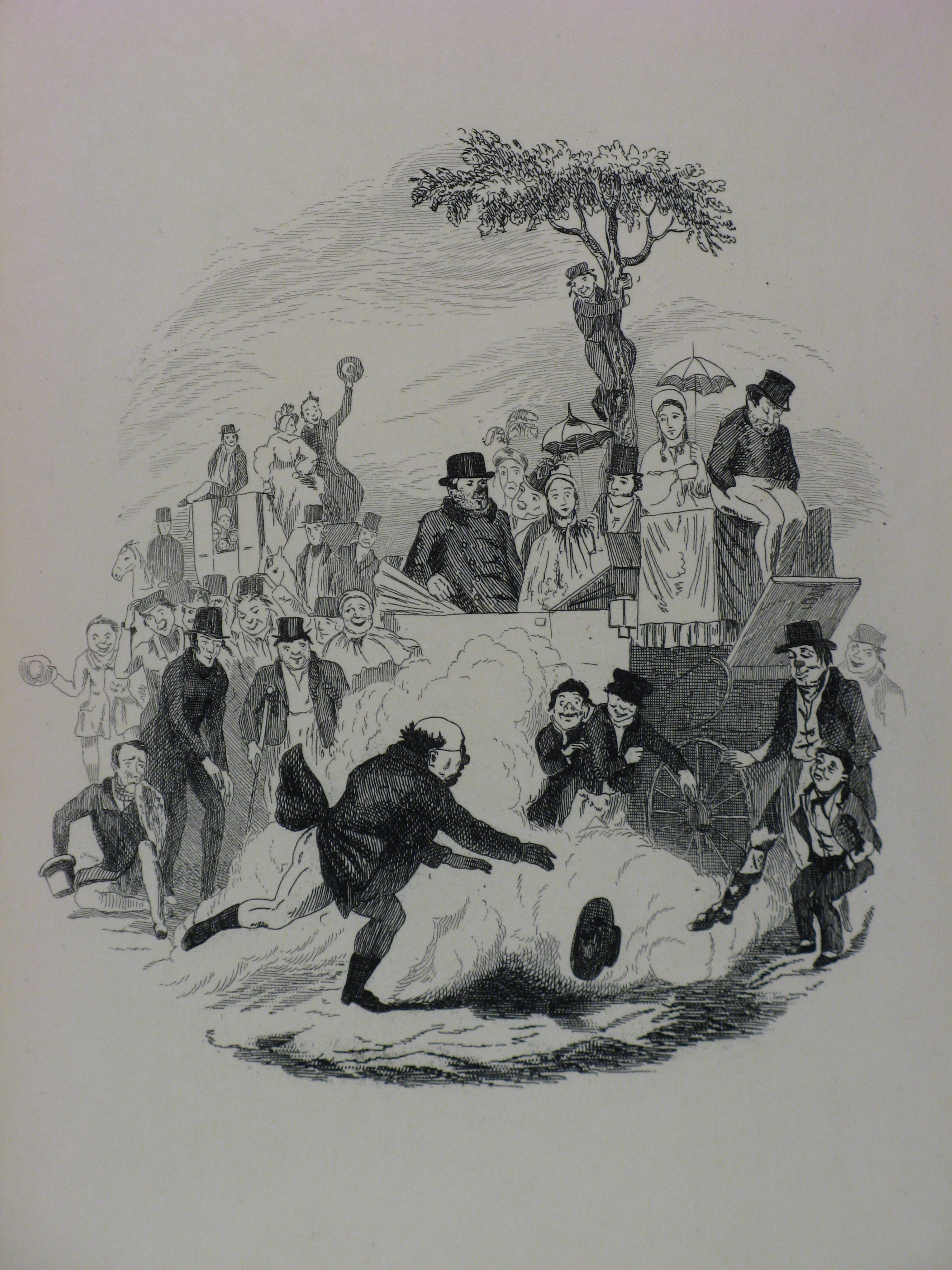 A photograph of an engraving in The Writings of Charles Dickens volume 1, The Pickwick Club, titled "Mr. Pickwick in chase of his Hat".